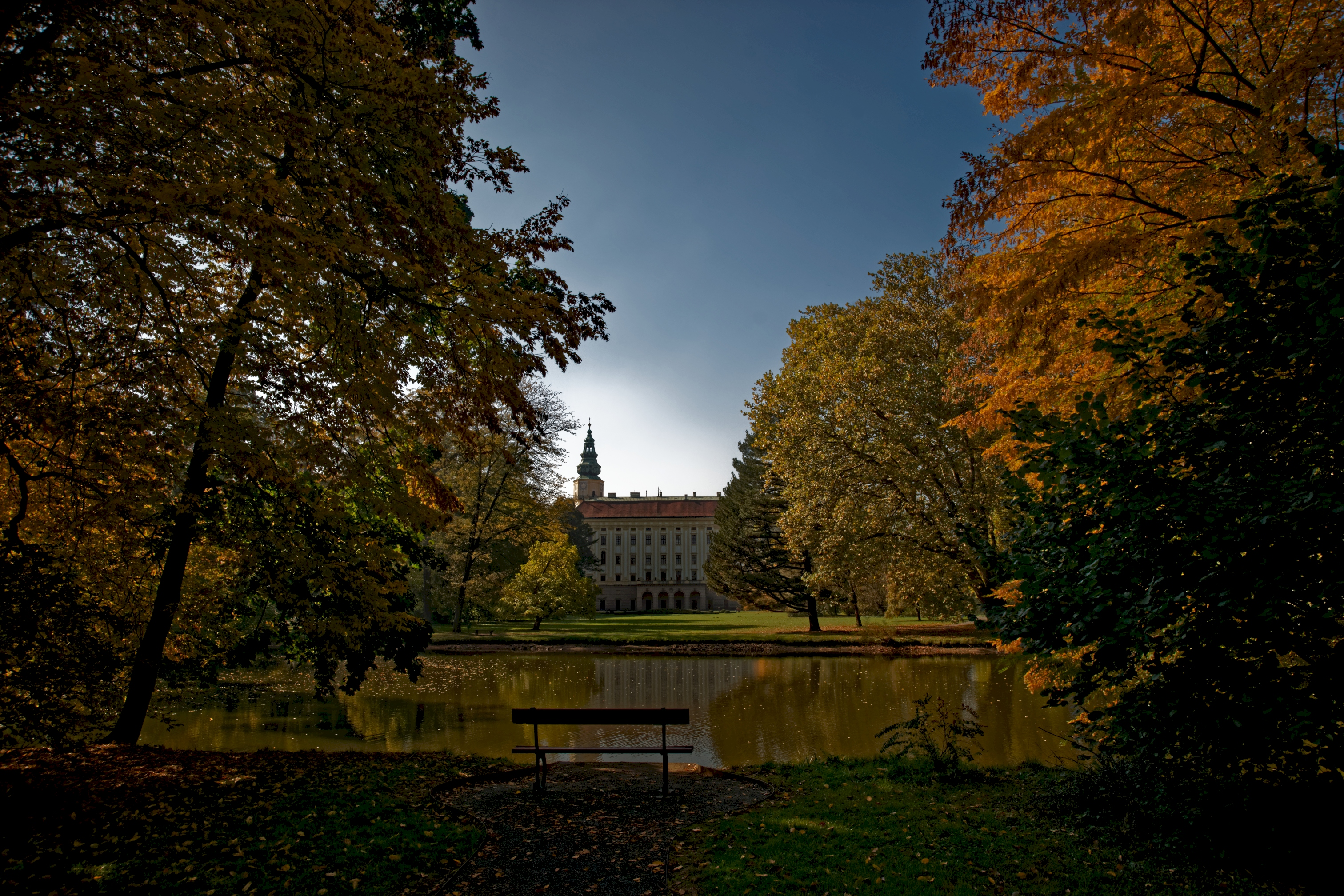 Kromeříž - Podzámecká zahrada - View WSW towards Arcibiskupský zámek / Archbishop's Chateau